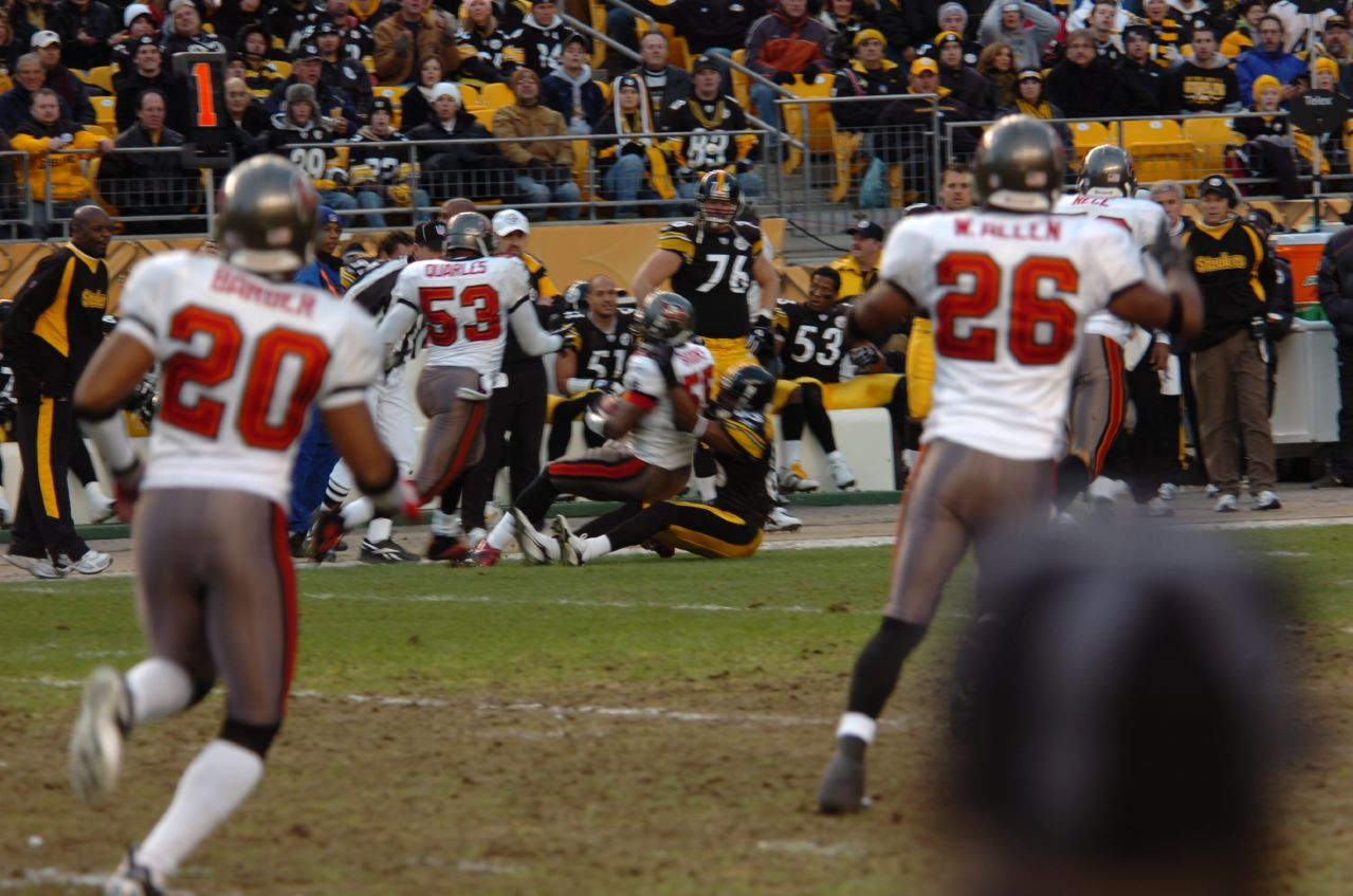 The bench during a Pittsburgh Steelers/Tampa Bay Buccaneers football game, Dec. 3, 2006. Steelers: #51 James Farrior; #76 Chris Hoke; #53 Clark Haggans